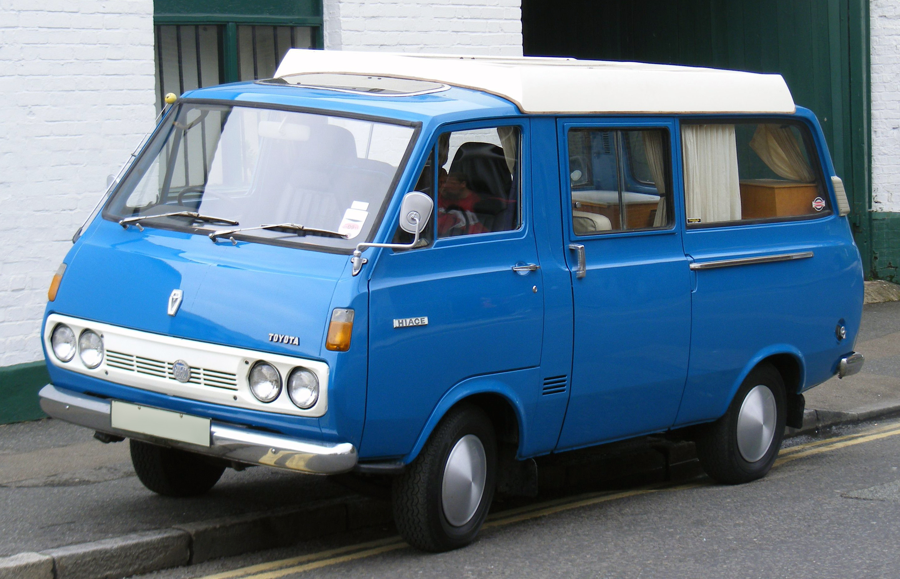 1975 Toyota Hiace camper van of the first generation style, replaced with single large headlight in 1977. Same car as this one? 1587cc petrol inline-four, first registered in 20 January 1975.